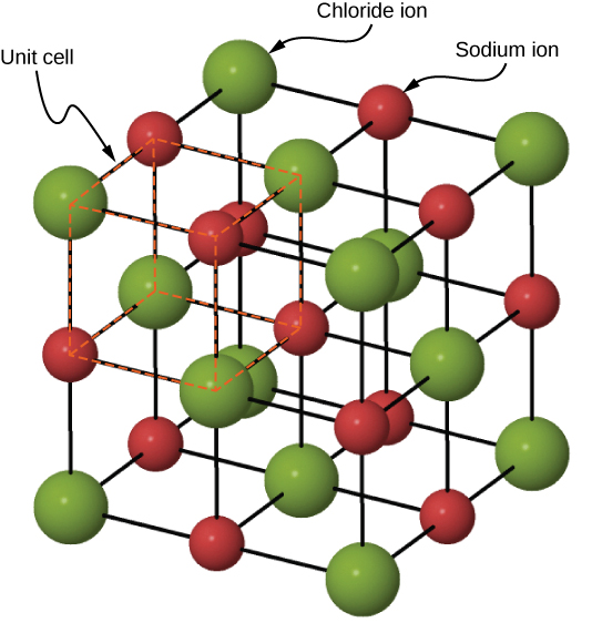 Image or illustration from the book: University Physics Volume 1 Caption:Missing, please see book Book ID